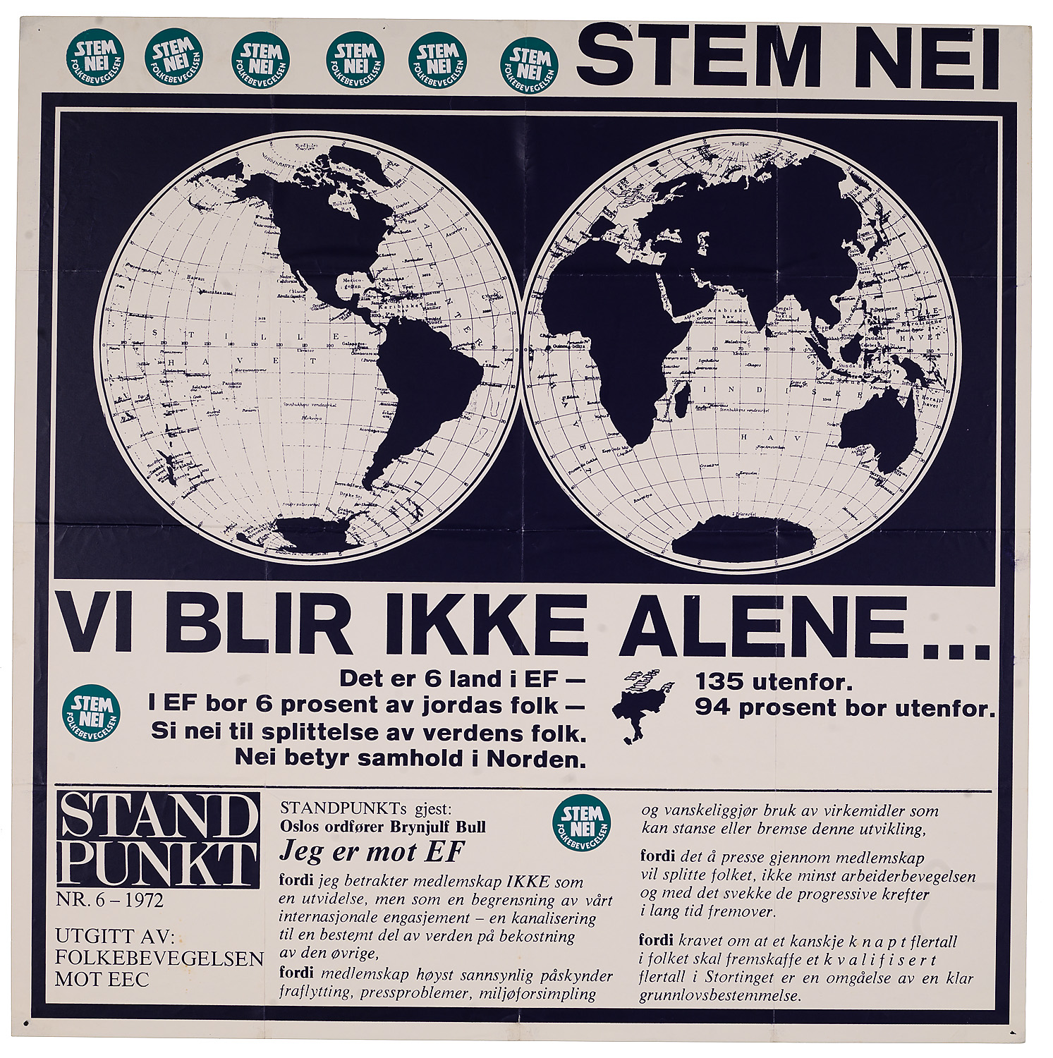 Image from National Archives of Norway's Flickr-Album "Protest" (all images marked with "No known copyright restrictions")